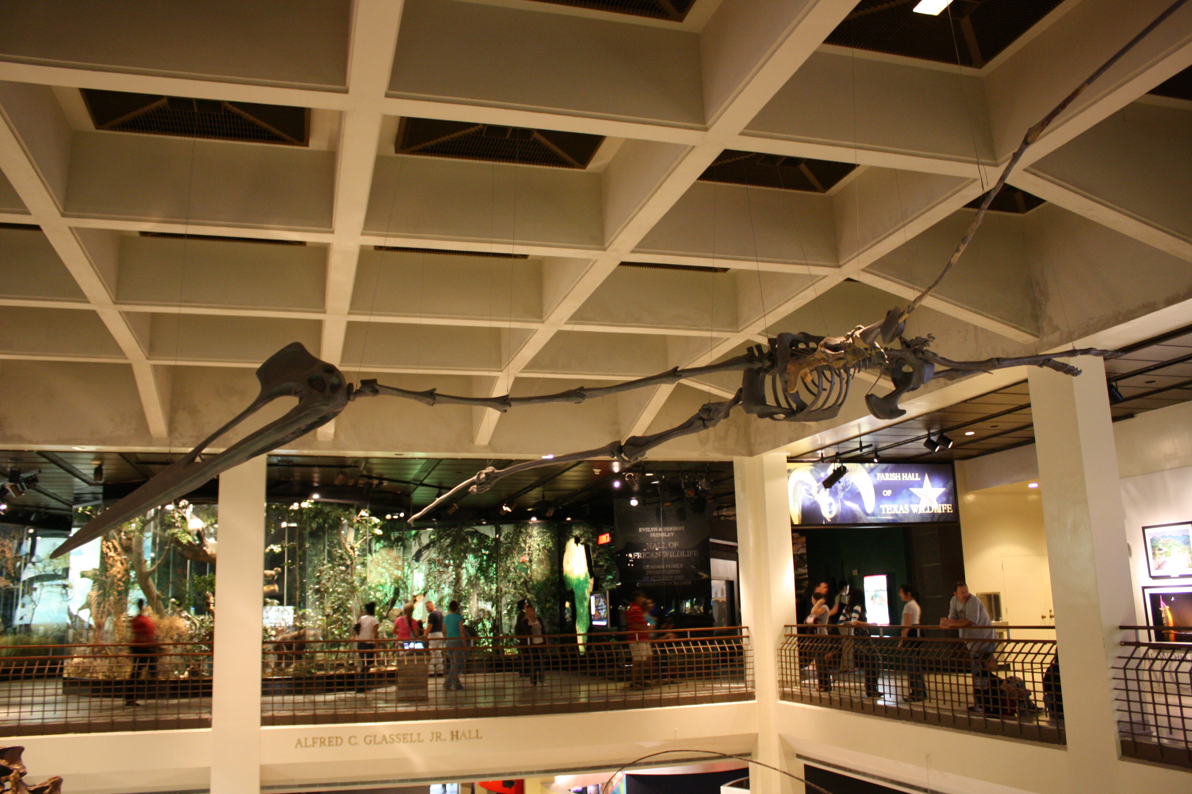 Quetzalcoatlus northropi, skeletal model Quetzalcoatlus northropi from the Late Crebeous Javalna Formation of Big bend region of West Texas is the largest known member of the family of giant pterodactloid pterosaurs called azhdarchids. Azhdarchids were probably distributed worldwide during the Cretaceaus Period and are characterized by greatly elongated neck vertebrae. Other evidence of azhdarchids include the fragmentatry remains of Titanopteryx from the Cretaceous of Jordan and Azhdarcho from the Creaceous of Uzbekistan. With an estimated wingspan of 36-39 feet, Quetzalcoatlus northropi may have been the largest creature ever to fly. Wikipedia Loves Art at the Houston Museum of Natural Science This photo of item # [1] at the Houston Museum of Natural Science was contributed under the team name "The_Wookies" as part of the Wikipedia Loves Art project in February 2009. Houston Museum of Natural Science The original photograph on Flickr was taken by andytang20—please add a comment to the original Flickr page whenever a use has been made on Wikipedia or another project. Project galleries on Flickr: this institution, this team